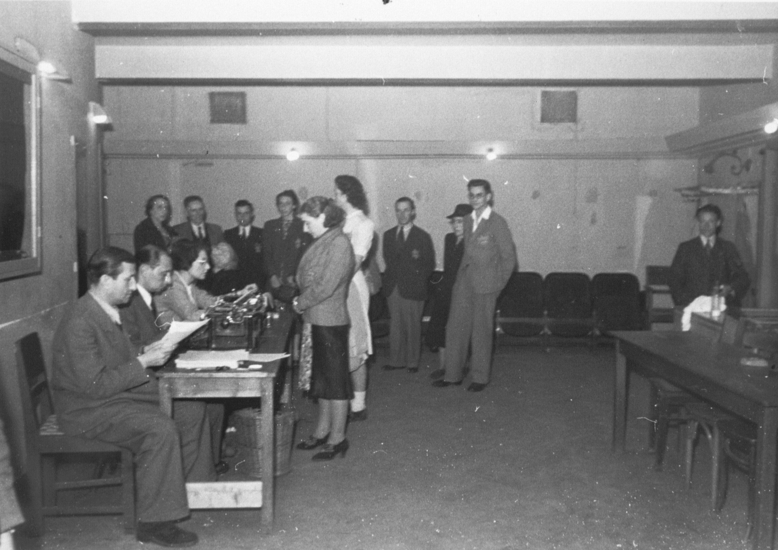 Registration of arrested Jews in the Hollandsche Schouwburg on the Plantage Middenlaan. After the first transports in the summer of 1942, fewer and fewer people responded to the German call to report for departure to Westerbork. The Amsterdam police picked up the Jews from home and brought them to the Hollandsche Schouwburg. The Joodsche Raad had made a number of provisions in the theater, but these were by no means sufficient to reasonably accommodate three to four hundred people. Sometimes the detainees only stayed there for a day, but the stay could also take a week. In the dark of the night the Jews left for Westerbork.